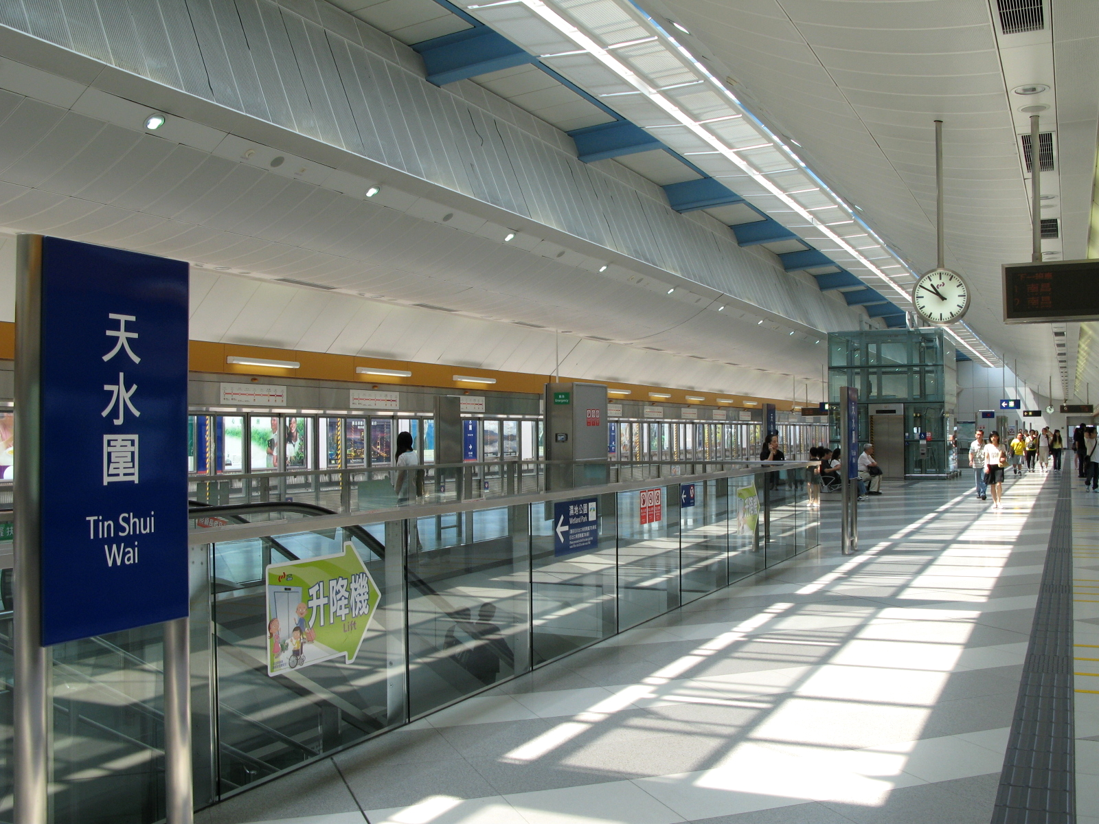 KCR KCR West Rail Tin Shui Wai Station Platform